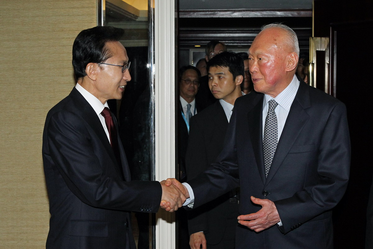 President Lee Myung-bak meets with Singapore Minister Mentor Lee Kuan Yew, who attended the opening dinner for the Shangri-La Dialogue for discussions on Friday evening (June 04).